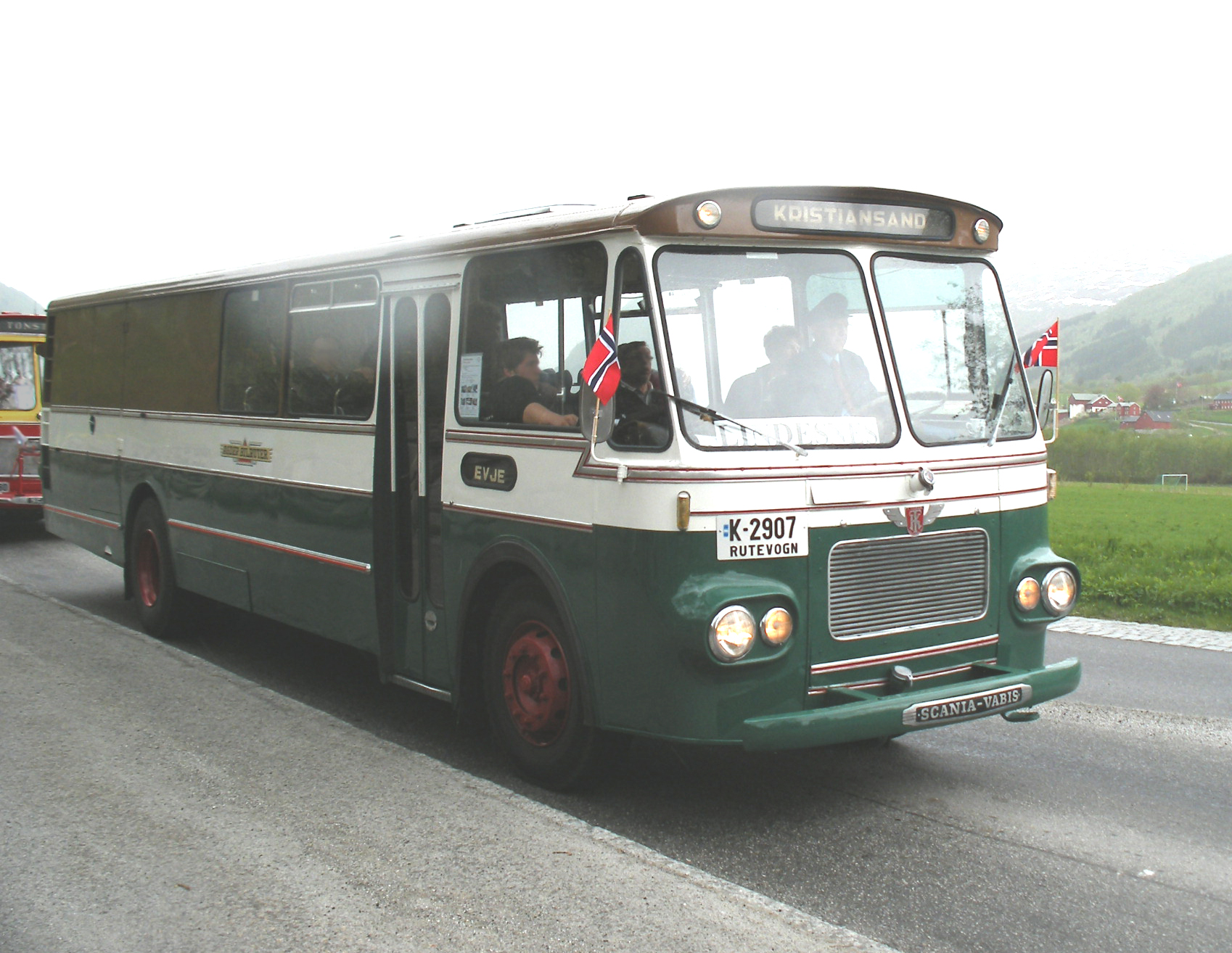 Old bus from Norway. Scania Vabis. Agder Bilruter.